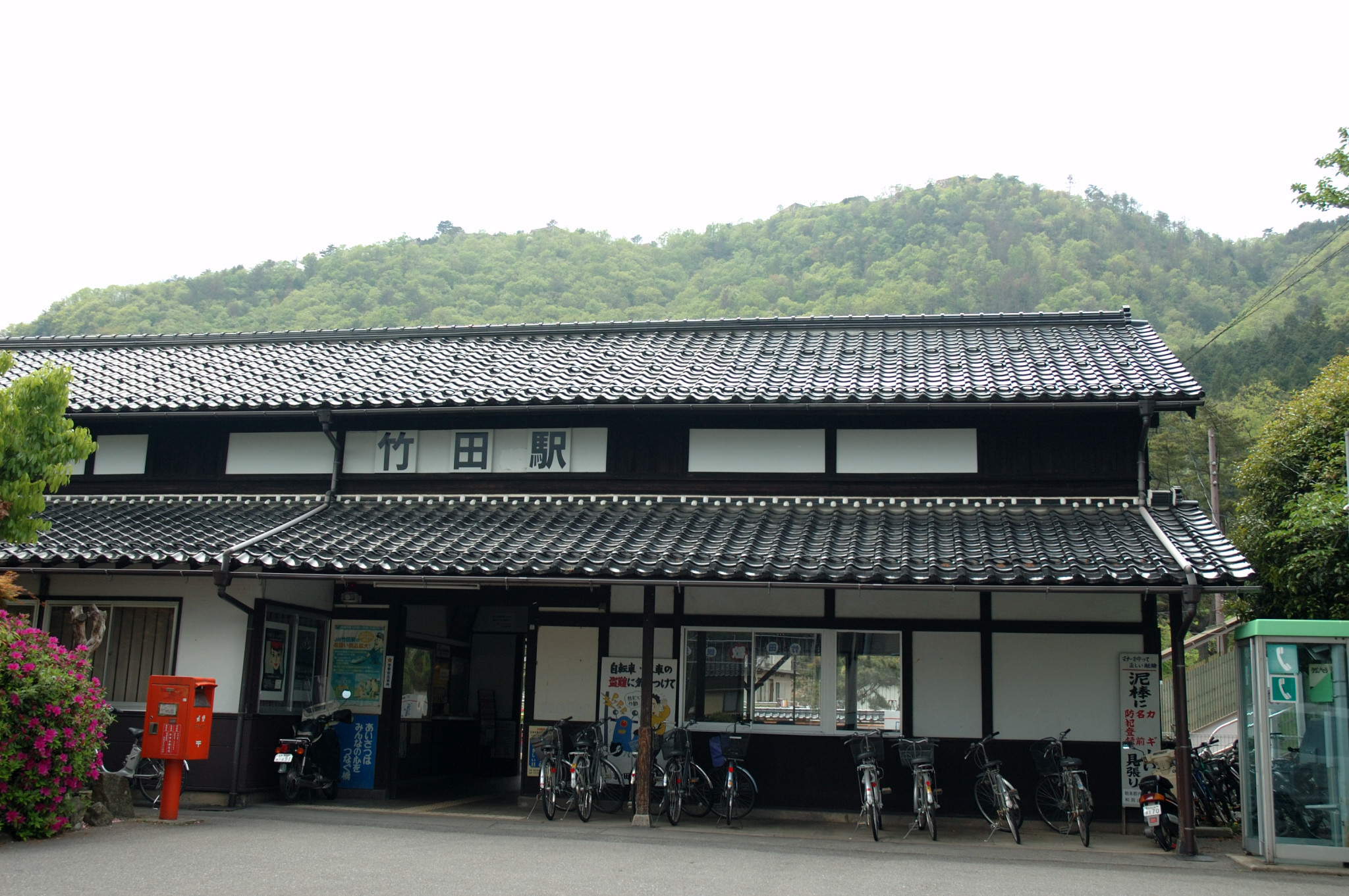 JR Takeda station and a mountain of the rear is Taketa Castle